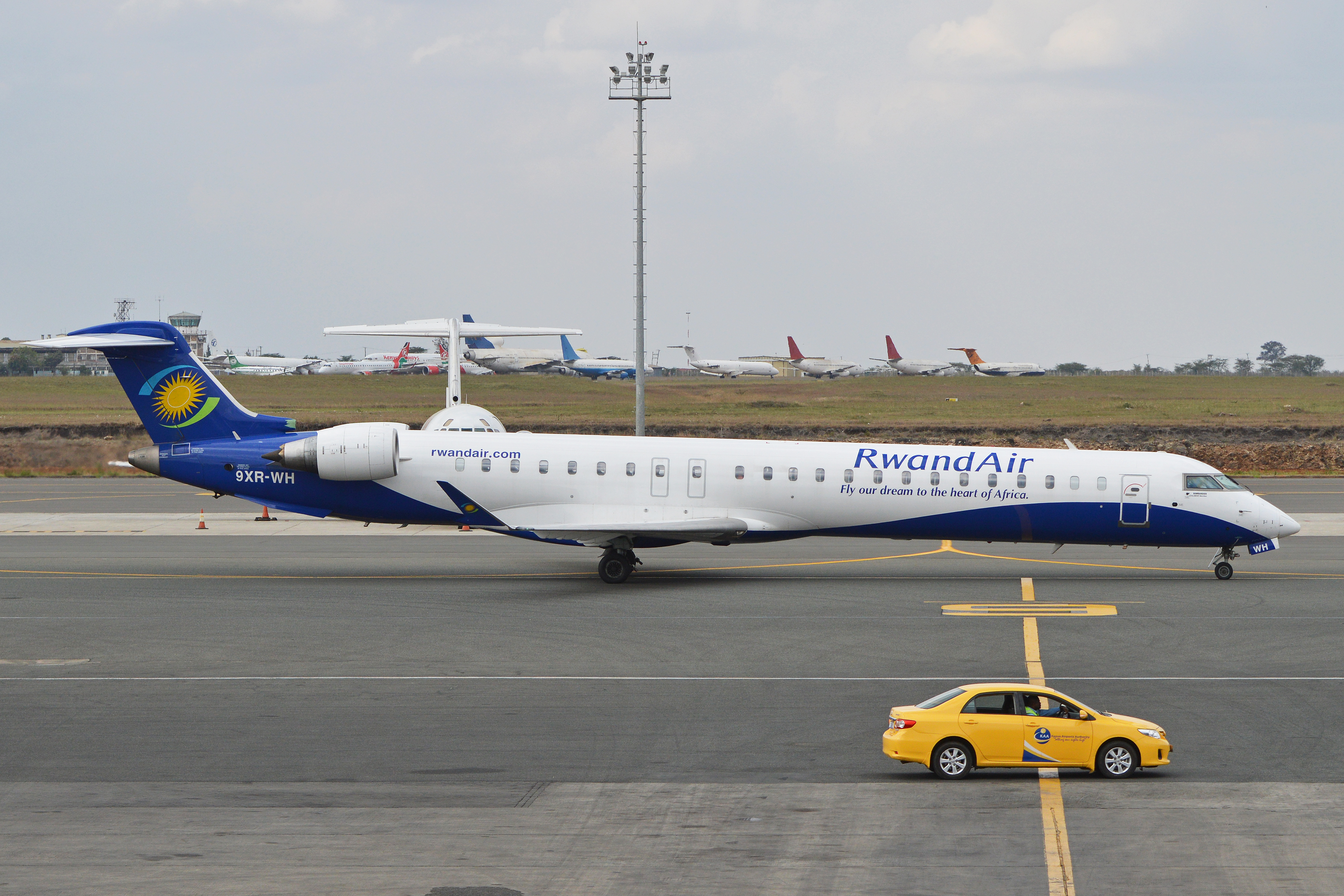 c/n 15286. Built 2012. Seen taxiing in at Nairobi's Jomo Kenyatta International Airport, Kenya. 26-9-2014